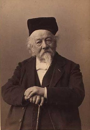 Frederik Christian Jacobsen Kiærskou (1805-1891), Danish landscape painter